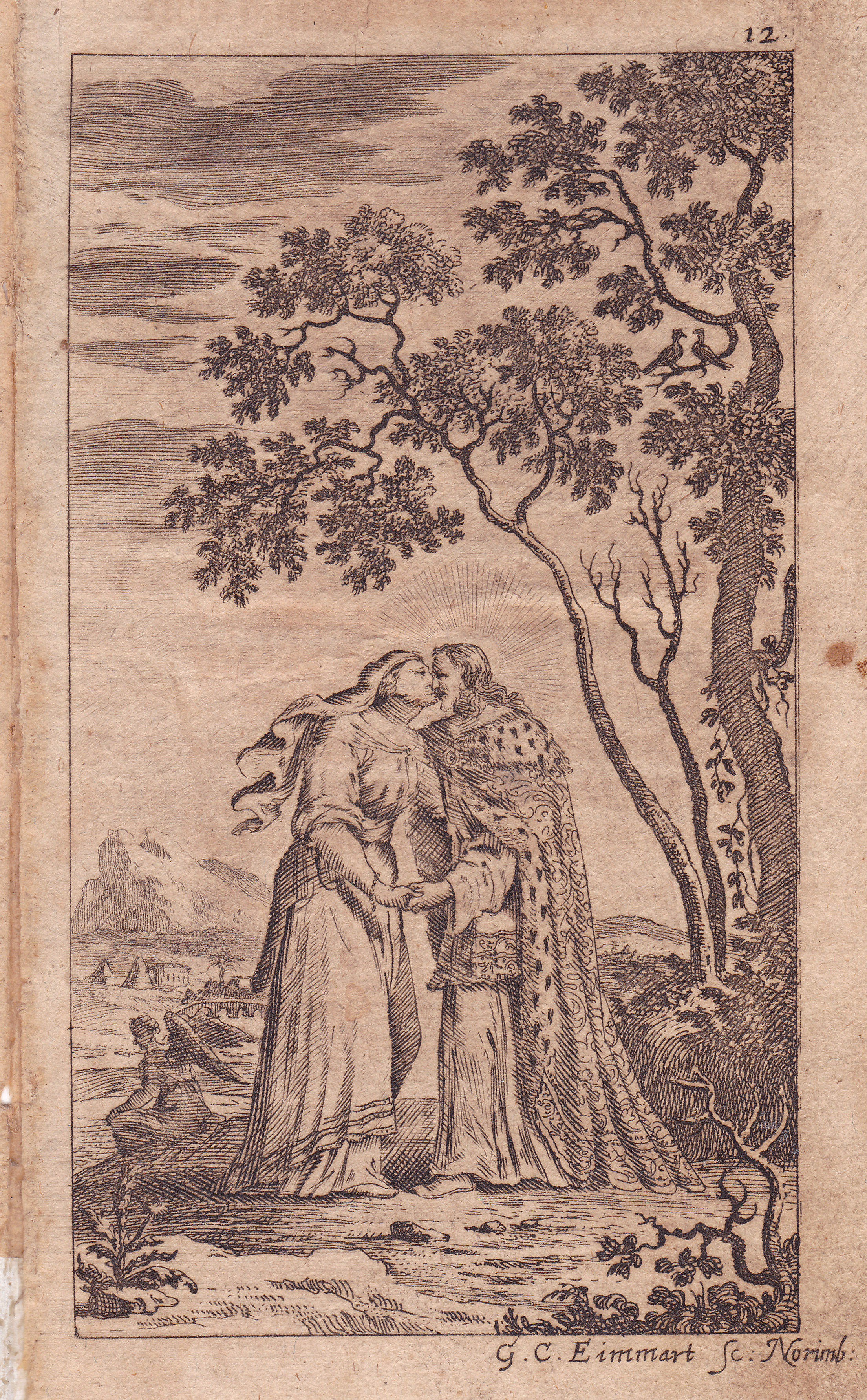 The affectionate Morning Sun - Etching from "Neuvermehrte himmlische Garten-Gesellschaft/ bestehend in Funffzig Geistlichen Gesprächen zwischen CHRISTO und einer gläubigen Seelen (Heavenly garden-company consisting of fifty spiritual conversations between Christ and a faithful soul). Leipzig 1681.